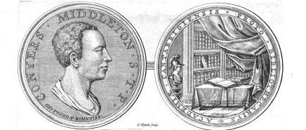 Medal (obverse and reverse) showing Conyers Middleton.